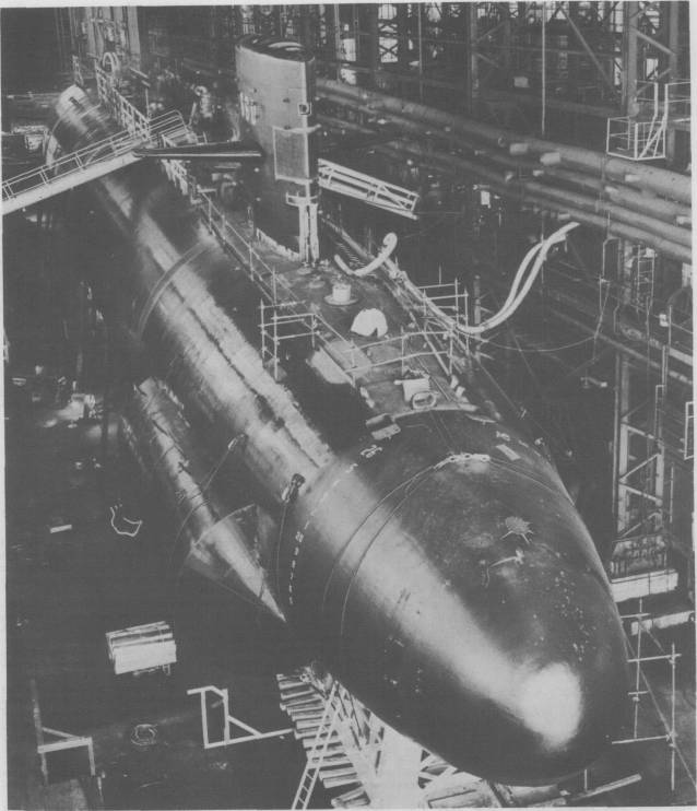 SSN-660, Sand Lance, under construction at Portsmouth, with temporary safety railings rigged around her deck. The external difference between this new generation of submarines and its predecessors is readily apparent, and almost as marked as their internal differences. The external fairing on the lower hull is temporary, designed to provide added buoyancy for the bow during the launching and to avoid excessive strain on the hull.